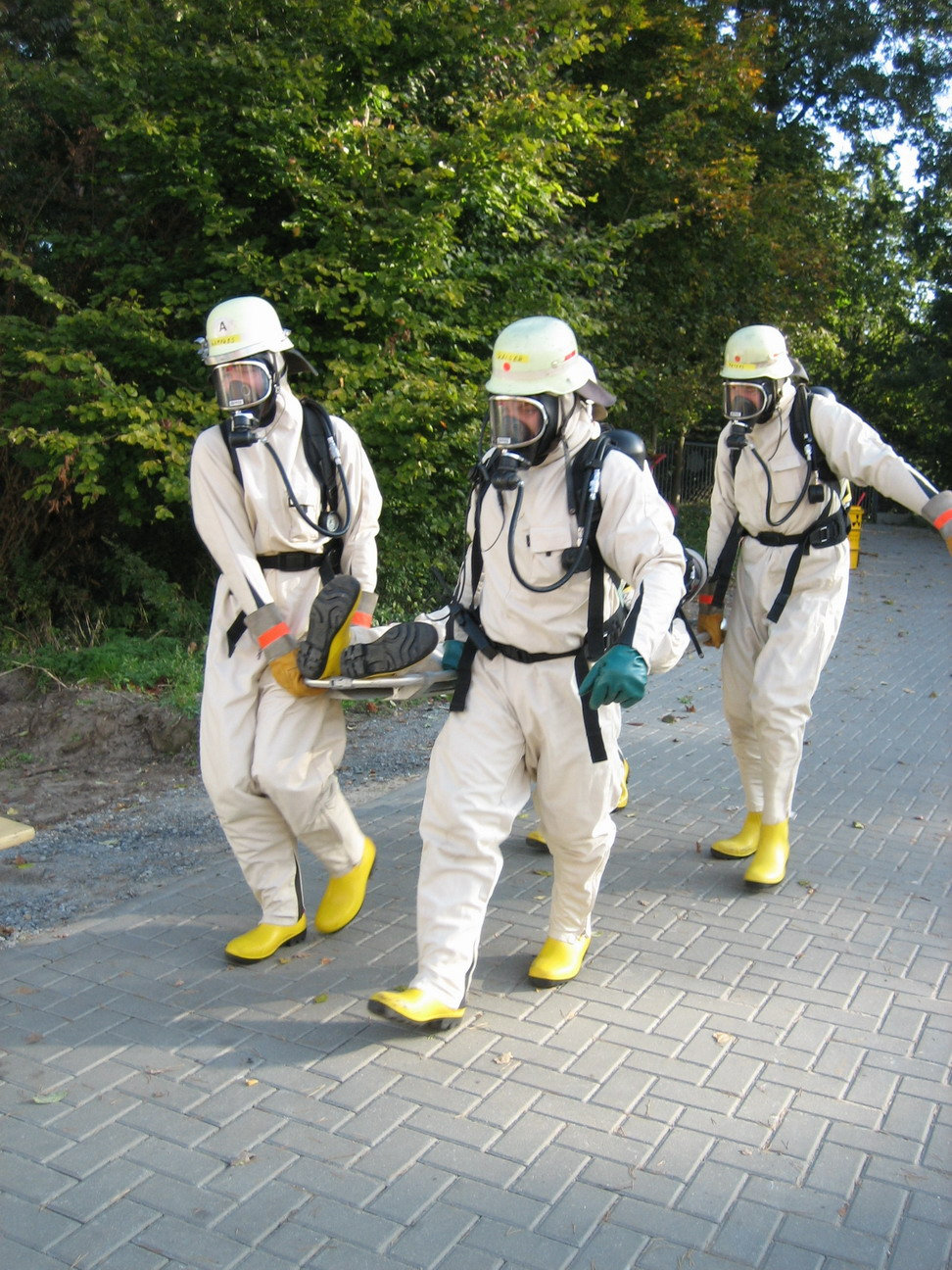 Four Firefighters during a Training Scenario with radioactive material